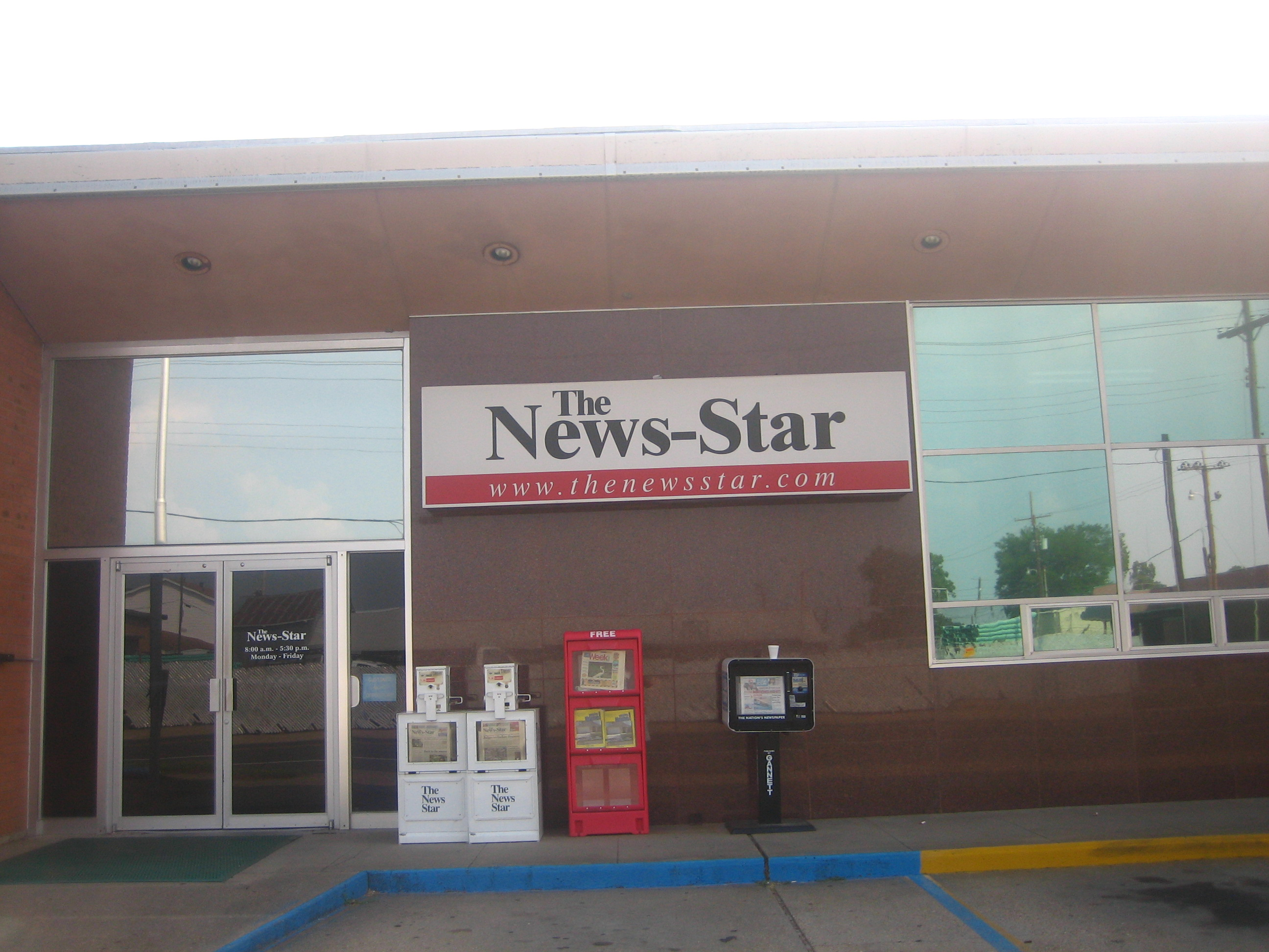 I took photo on Aug. 2, 2008.Billy Hathorn (talk) 22:11, 13 August 2008 (UTC)